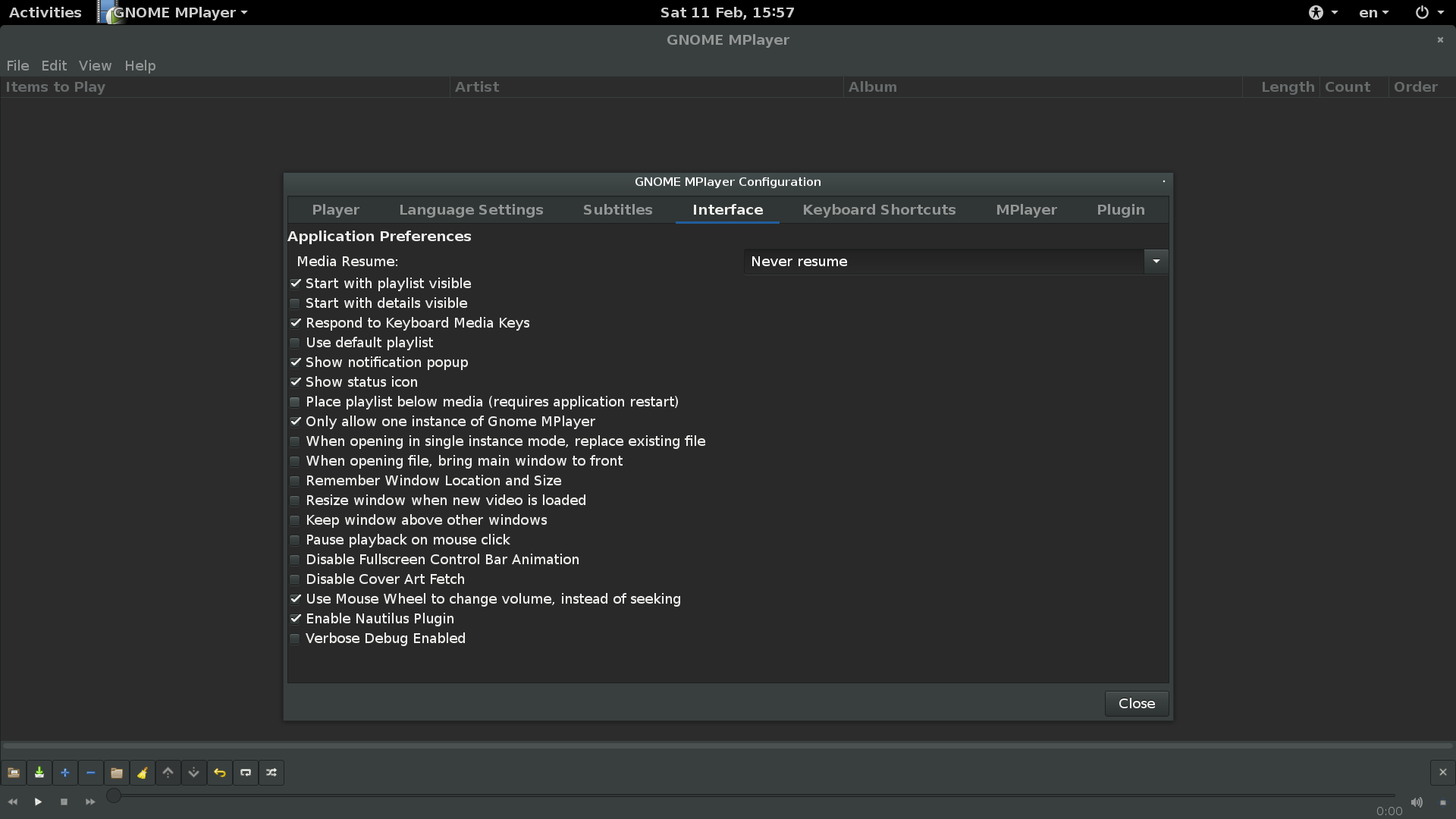 Gnome-MPlayer v1.0.9 on Debian 8, with the "Adwaita" Dark theme